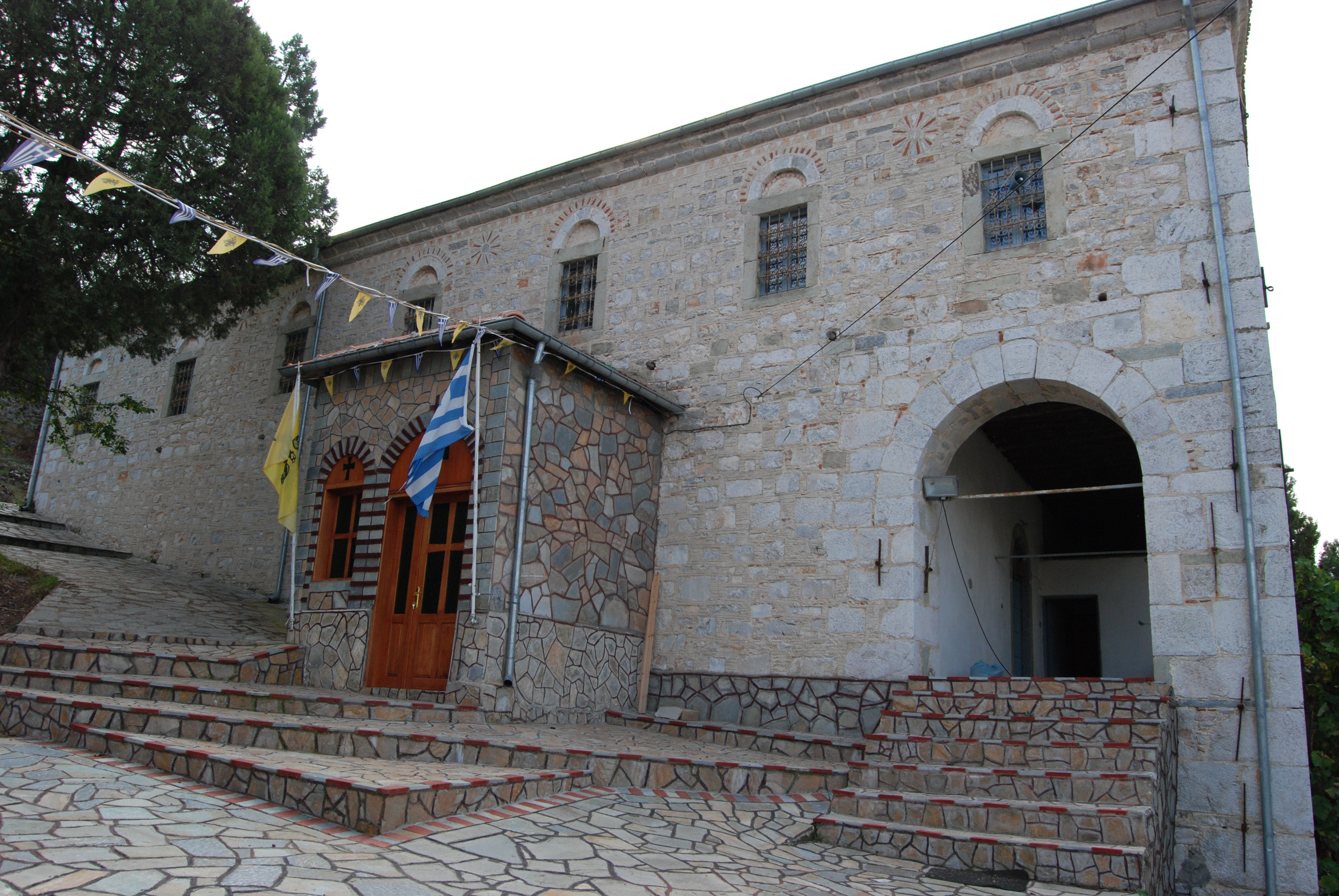 Assumption of Mary Church, Psarades